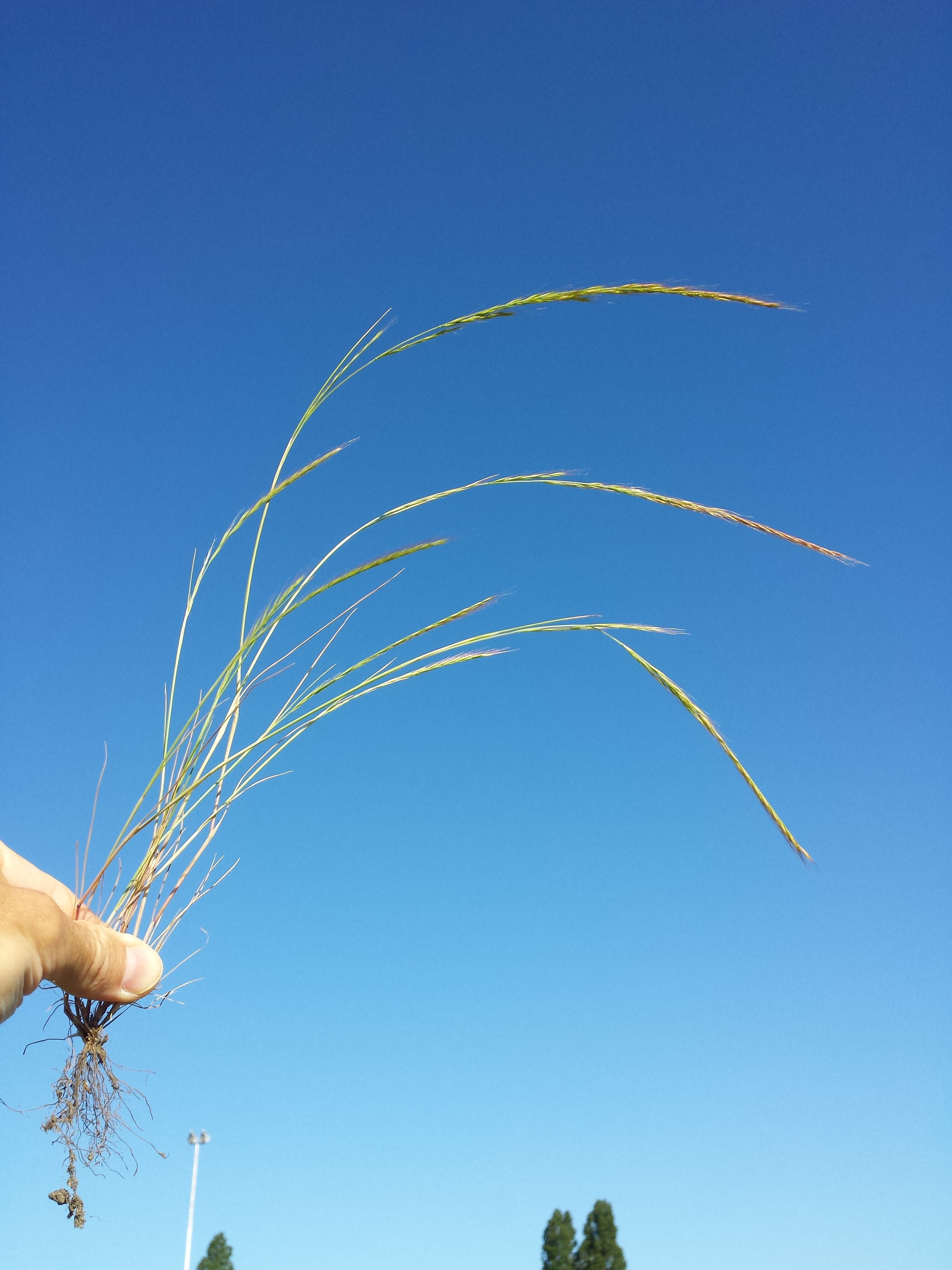 Habitus Taxonym: Vulpia myuros ss Fischer et al. EfÖLS 2008 ISBN 978-3-85474-187-9 Location: Floridsdorf rail station, Vienna-Floridsdorf - ca. 160 m a.s.l. Habitat: ruderal area